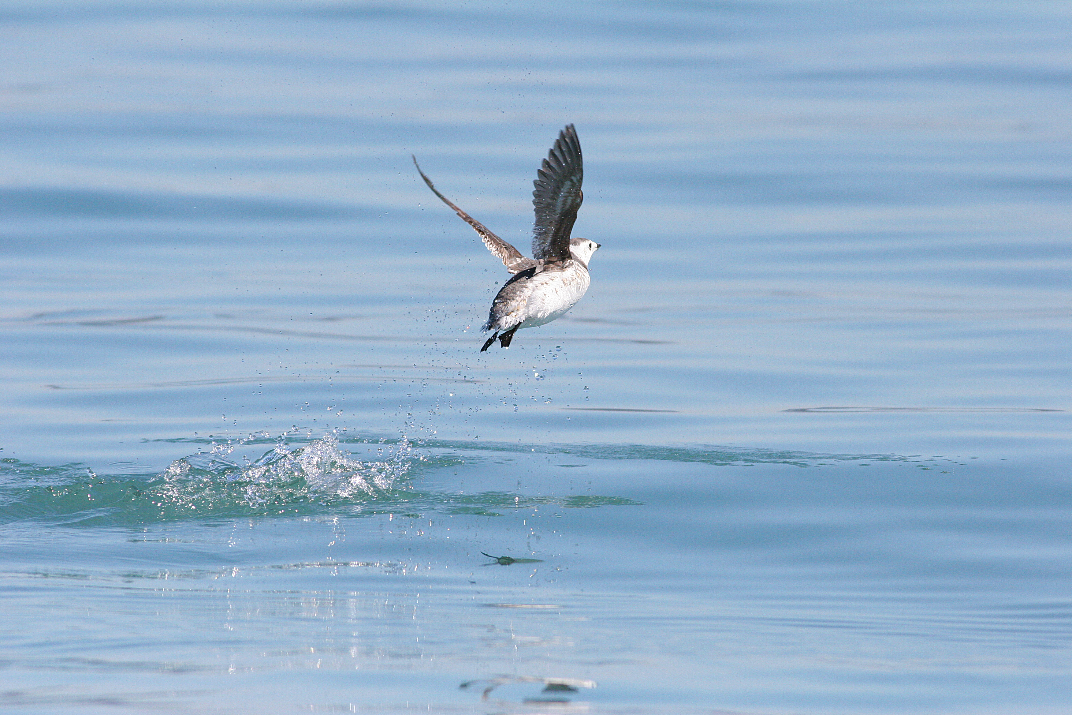 Brachyramphus brevirostris, Wrangell-St. Elias National Park. NPS Photo by M. Reid